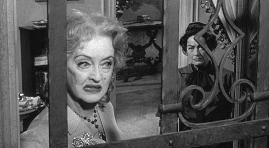 Cropped screenshot of Bette Davis and Joan Crawford from the film Category:Whatever Happened to Baby Jane? (film)